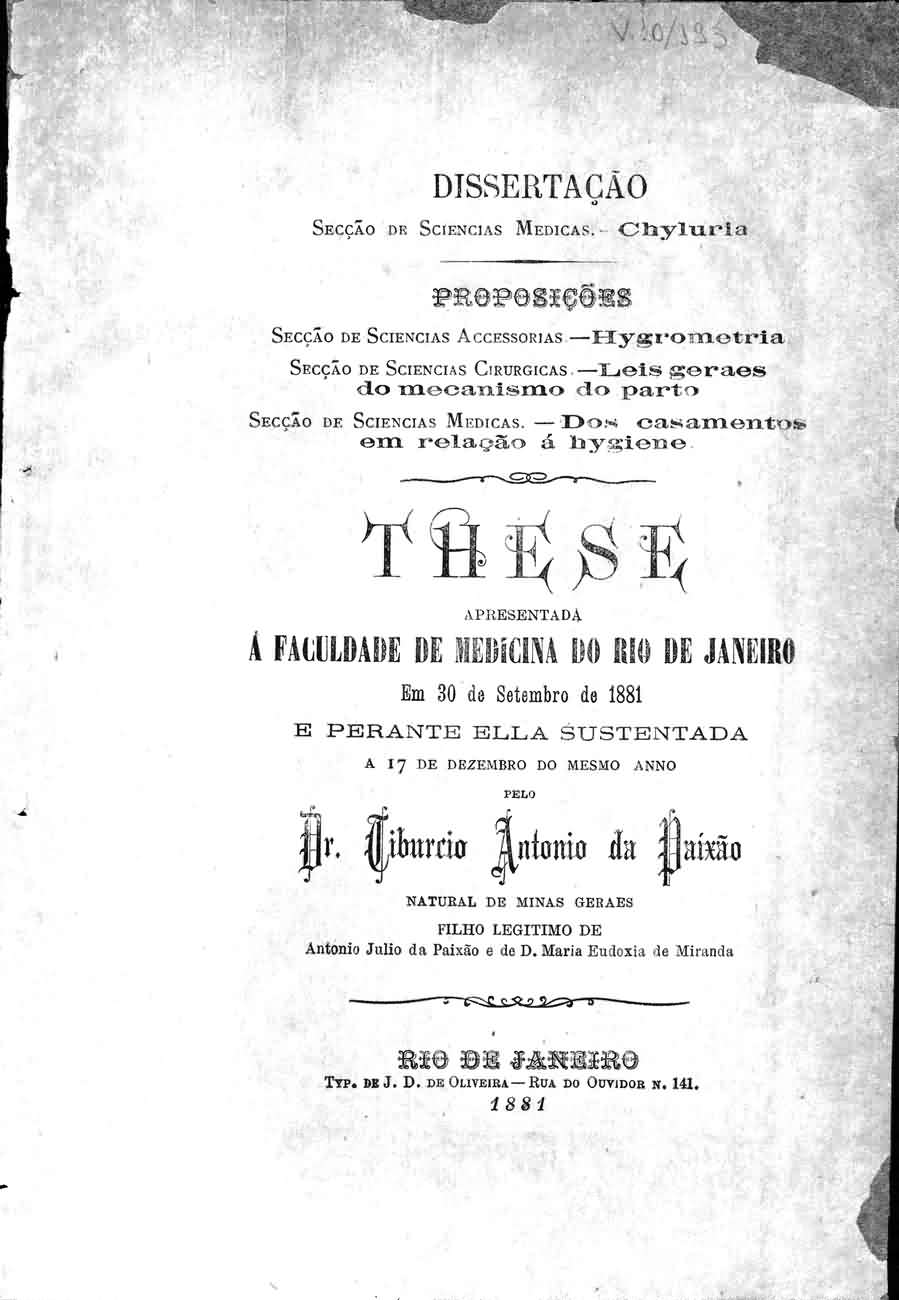 Tese do médico Tibúrcio Antônio da Paixão de 1881.